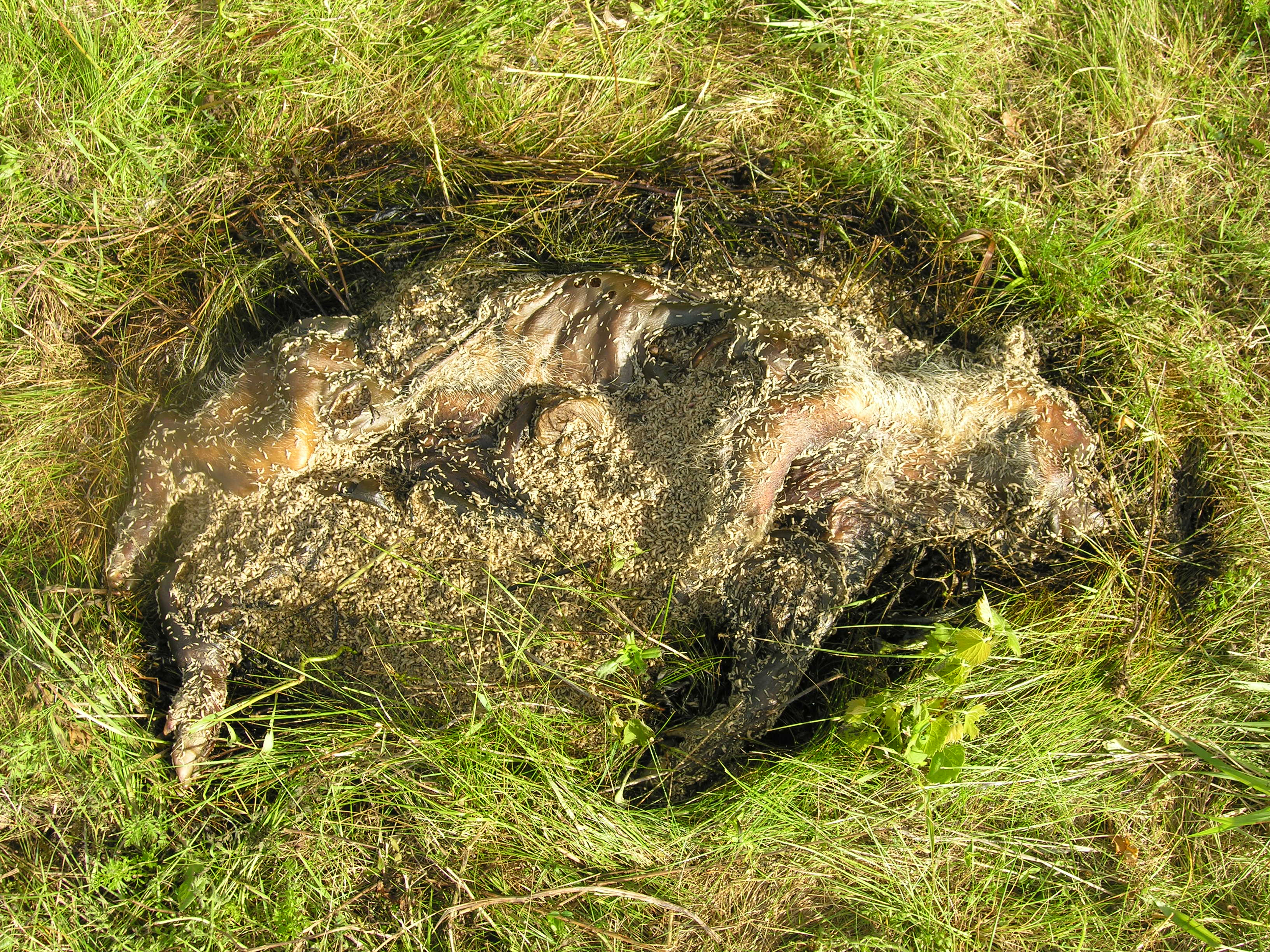 Example of a pig carcass (Sus scrofa) in the active decay stage of decomposition. Notice the extensive maggot feeding and the formation of the "cadaver decomposition island" (CDI) around the carcass (dark staining).